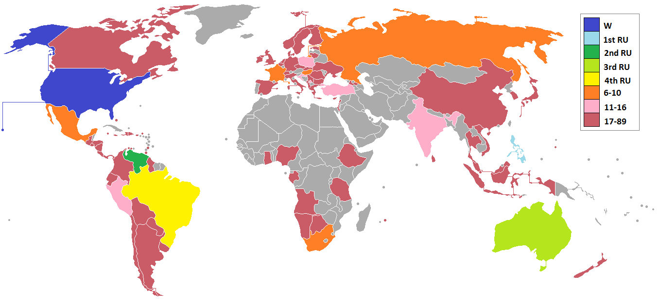 Miss Universe 2012 competing nations and territories